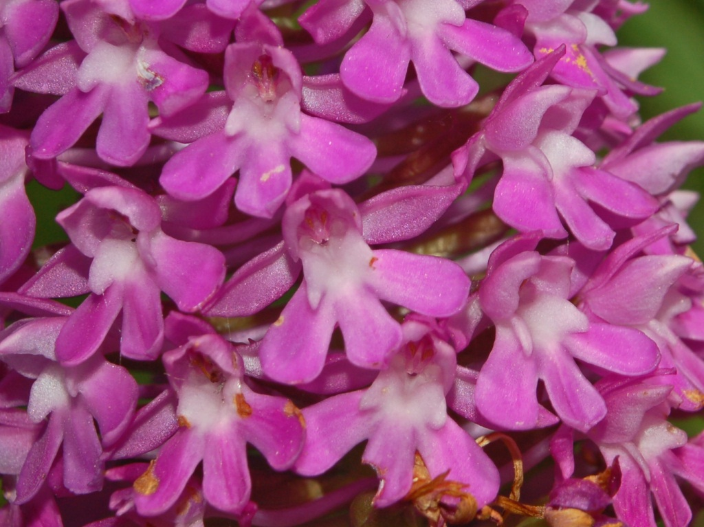 Anacamptis pyramidalis - Genova, Italy